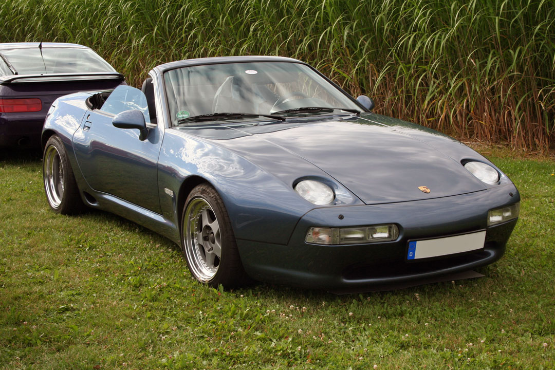 Porsche 928 GTS rebuild to a convertible at Classic Days Schloss Dyck 2012. View: front right